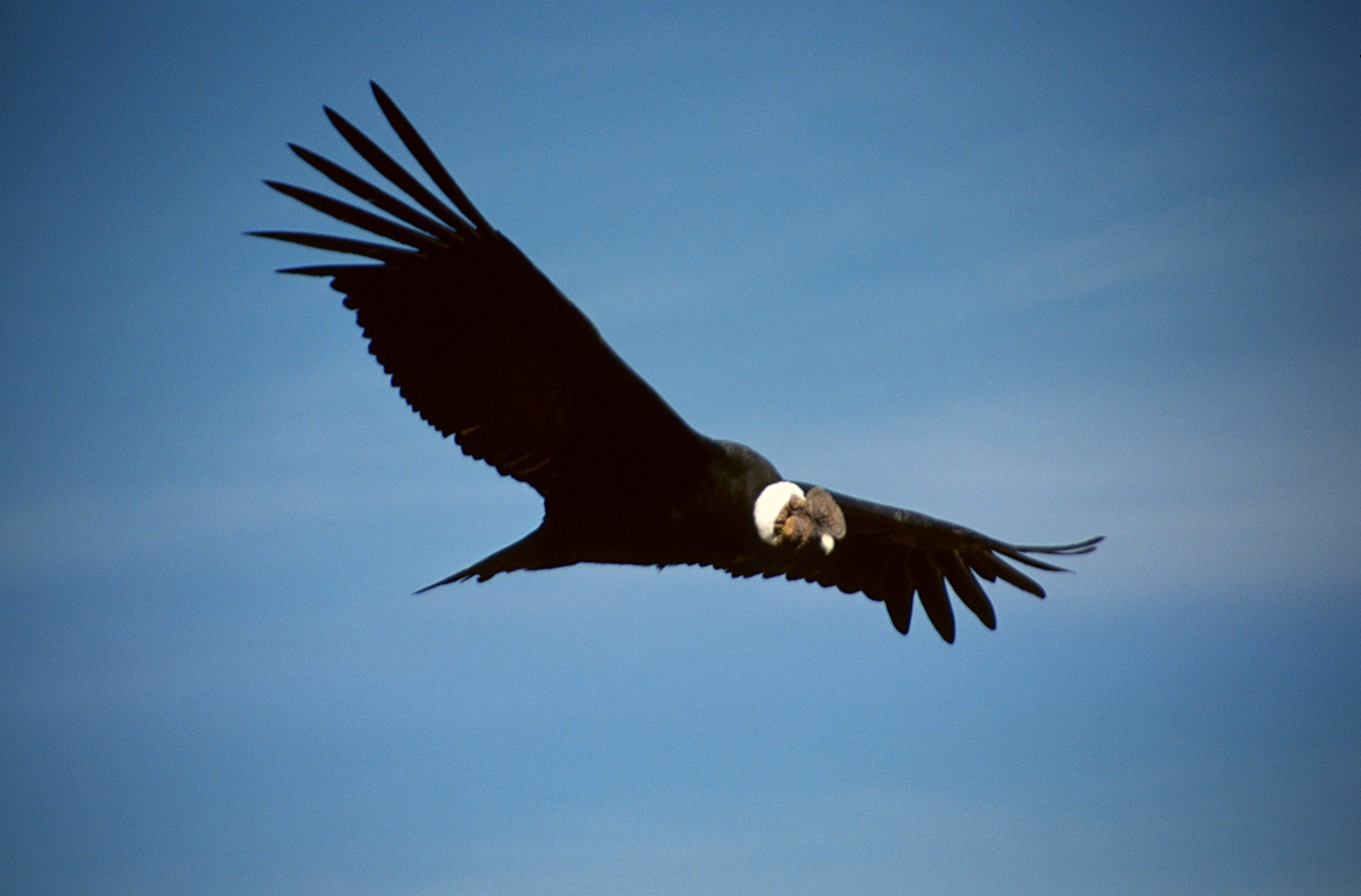 Andean Condor (Vultur gryphus) at Cruz del Cóndor in Colca Canyon, Colca Valley, Peru. Digital photo taken by author and post-processed with The GIMP.